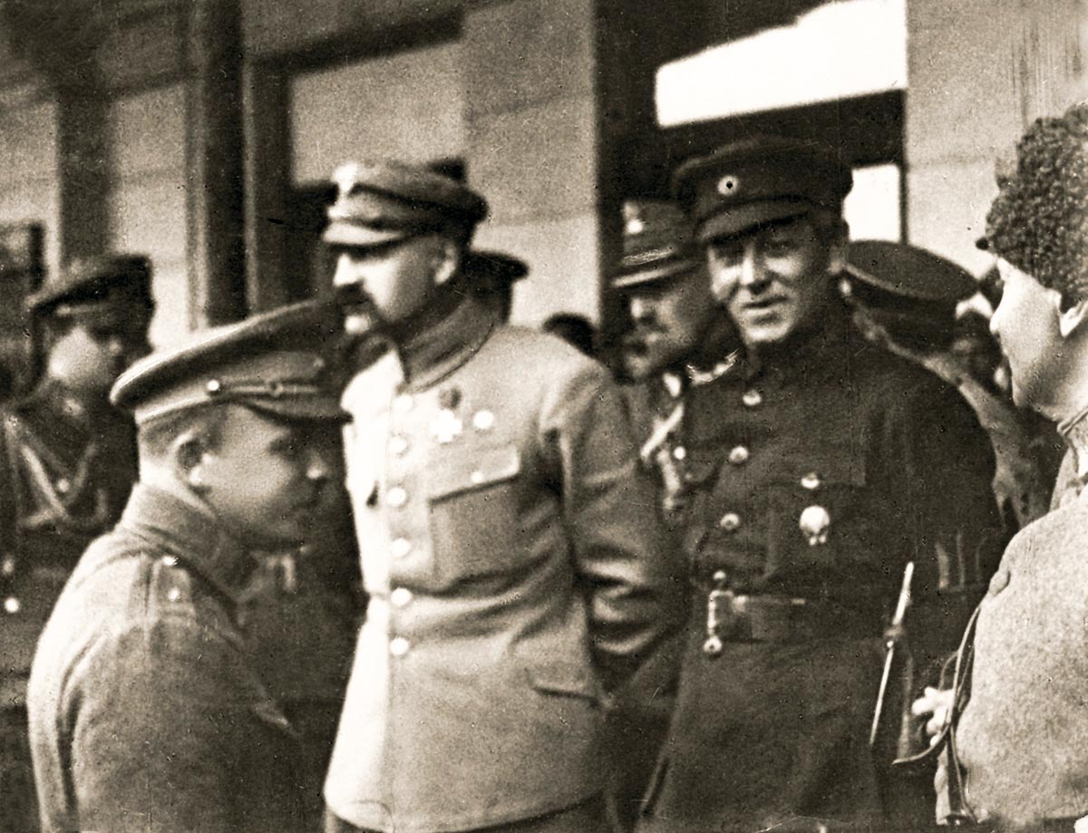 Józef Piłsudski and Symon Petlura, Kiev , seized by Polish and Ukrainian troops May 1920